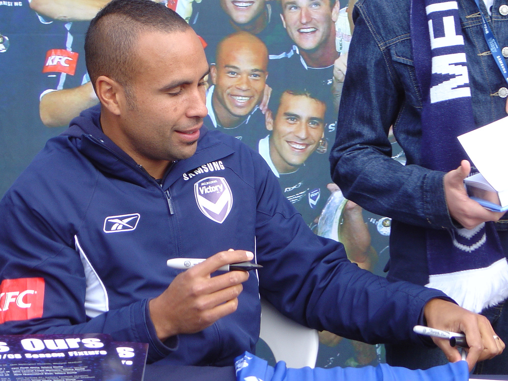 Archie Thompson signing an autograph at the Melbourne Victory Family Day, Melbourne Docklands.